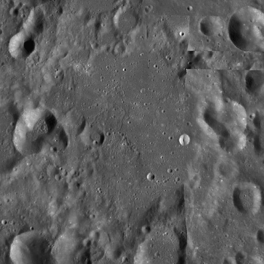 Moseley crater, on the far side of the moon. LRO Wide Angle Camera mosaic.